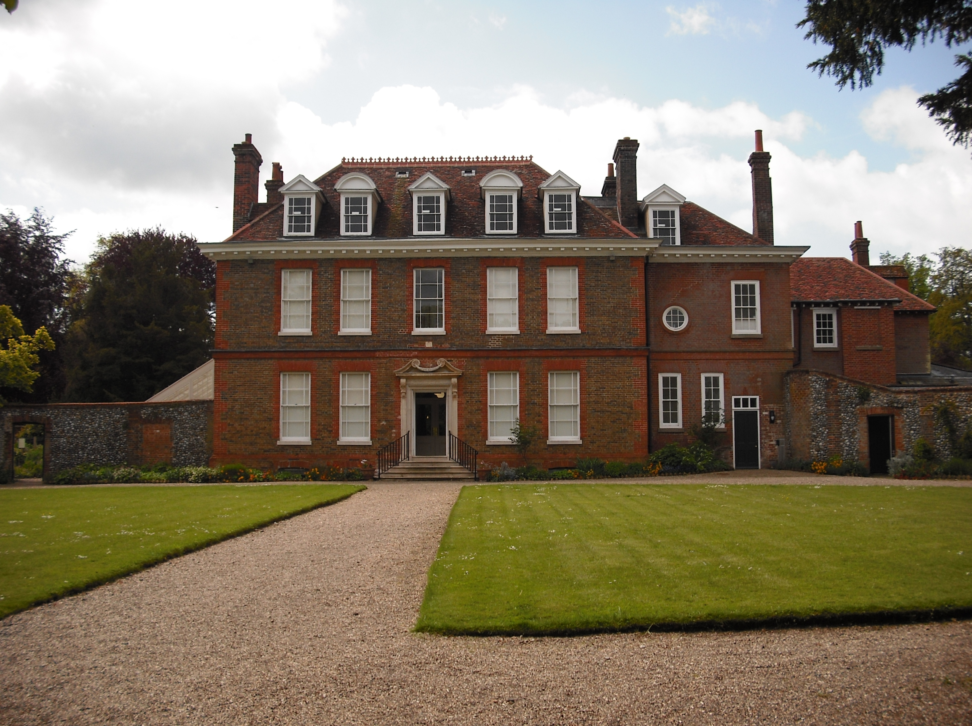 Abbots Hall, at the Museum of East Anglian Life, Stowmarket, Suffolk